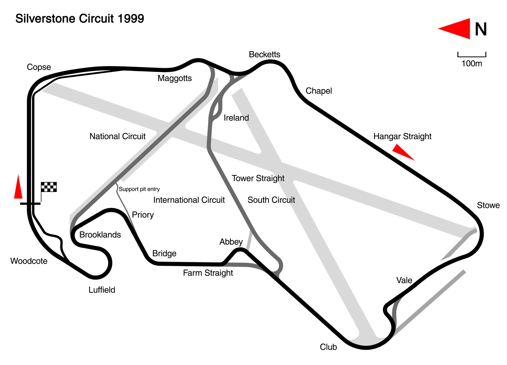 Track diagram of Silverstone Circuit in the UK in 1999 configuration. Made to scale from aerial photographs.